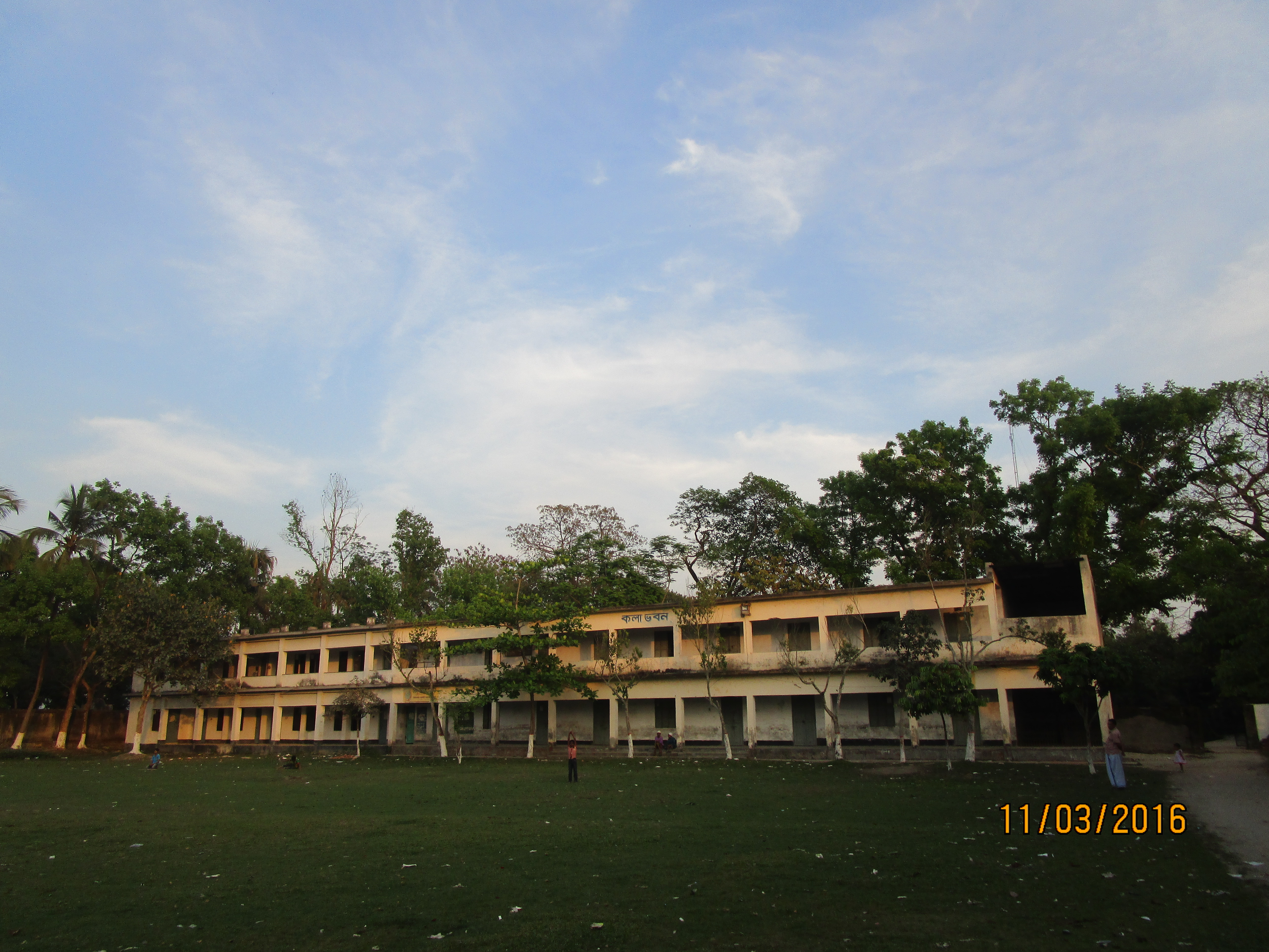 Gafargaon govt. college building